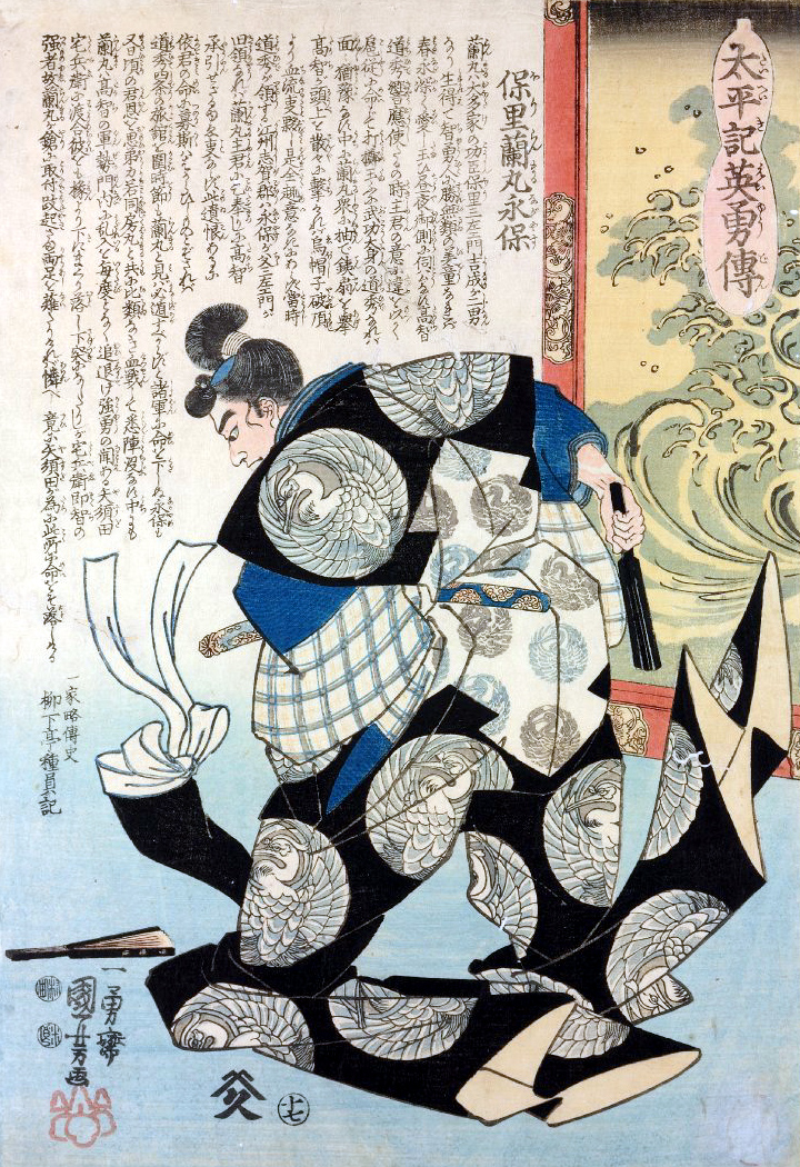 Ranmaru Mori painting. Art by Utagawa Kuniyoshi (ca.1850) from the TAIHEIKI EIYUDEN